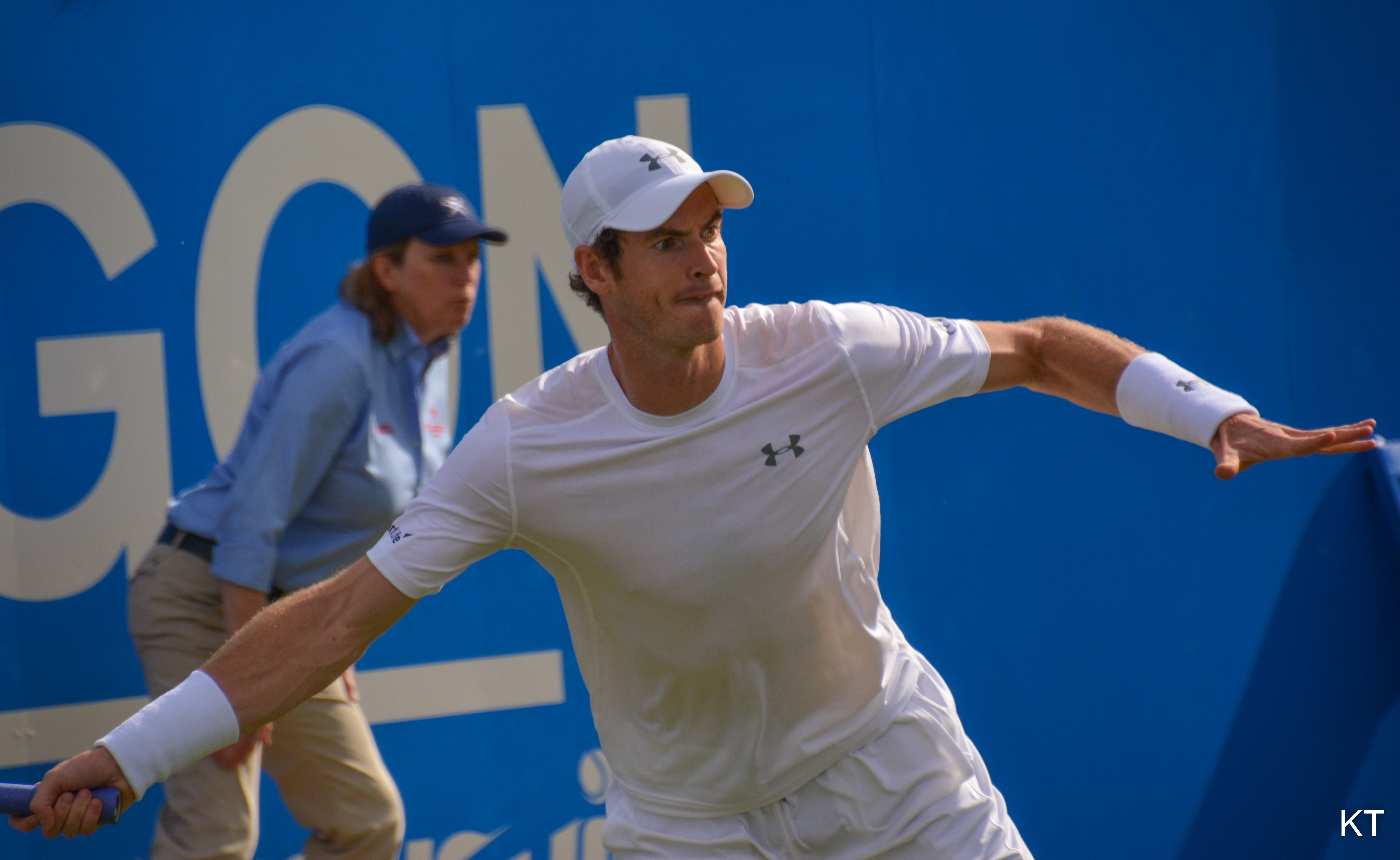 Aegon Championships, Queen's Club, June 2015.